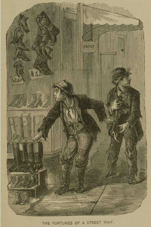 The Fortunes of a Street Waif, an illustration from the book below